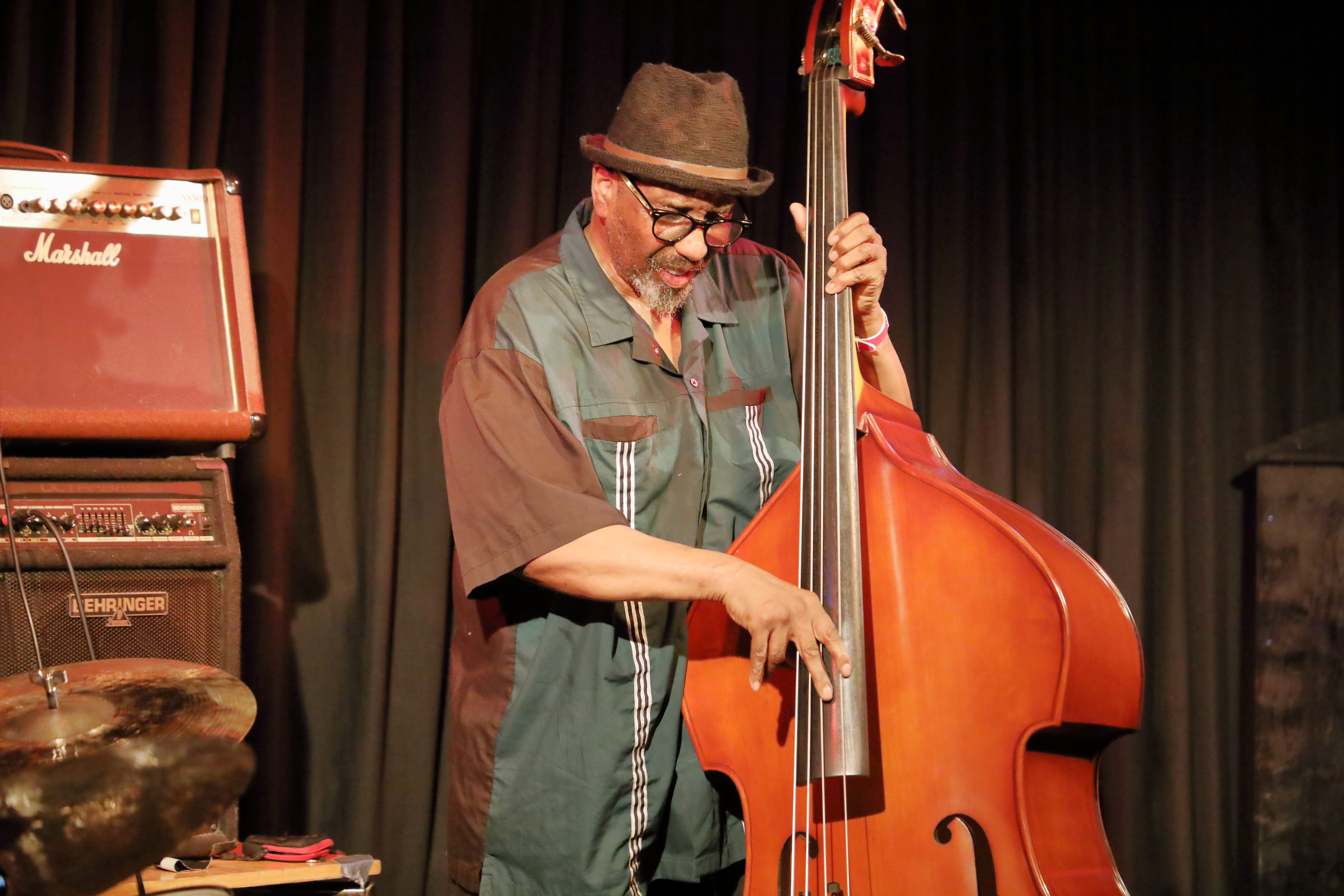 Jazz bassist William Parker from the US with Hamid Drake (dr) and John Dikeman (sax) at Club W71, 2019.